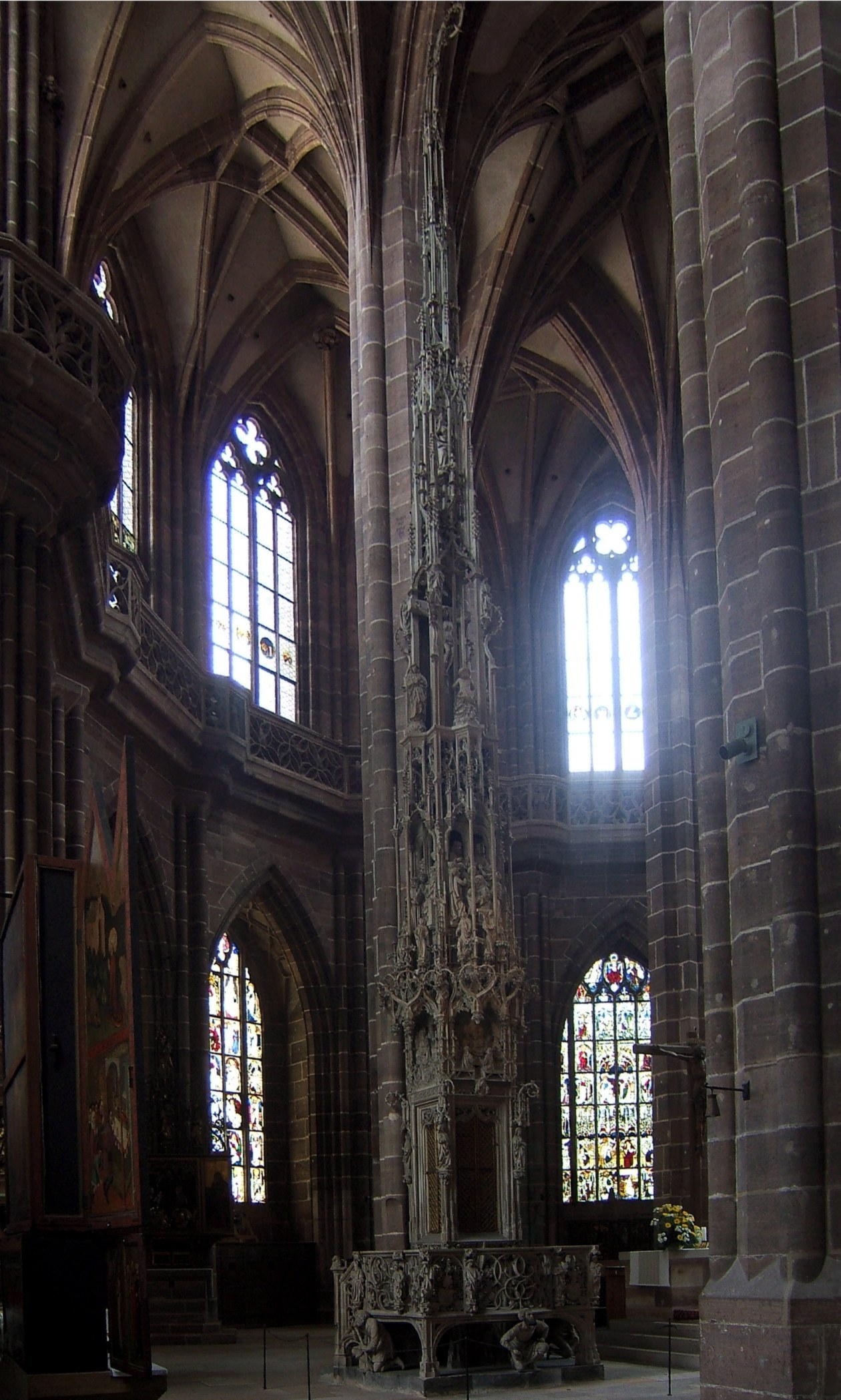 Adam Kraft's church tabernacle in Lorenzkirche, Nürnberg.